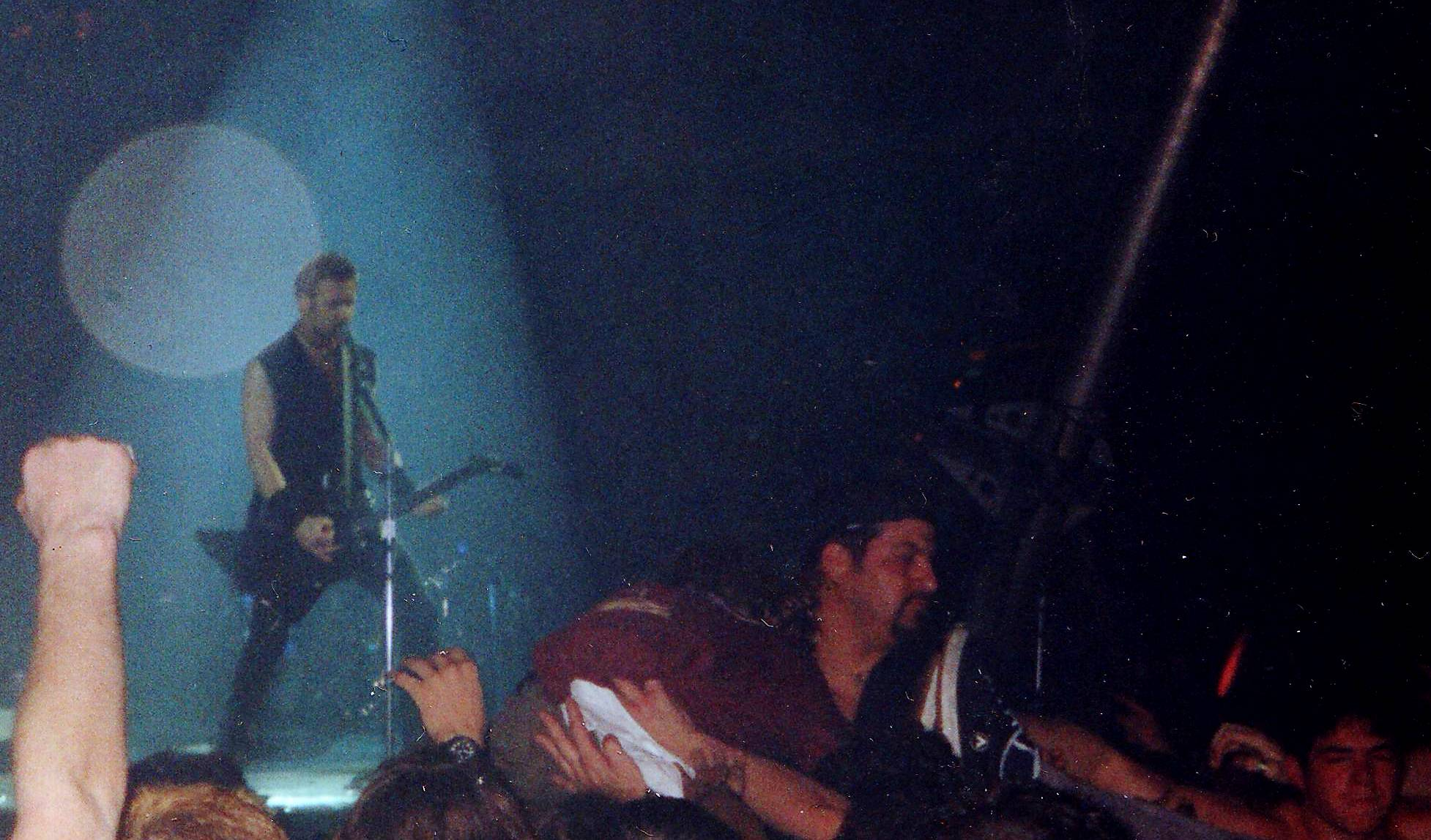 Metallica performing live in Cardiff (October 1996), during Load Tour.